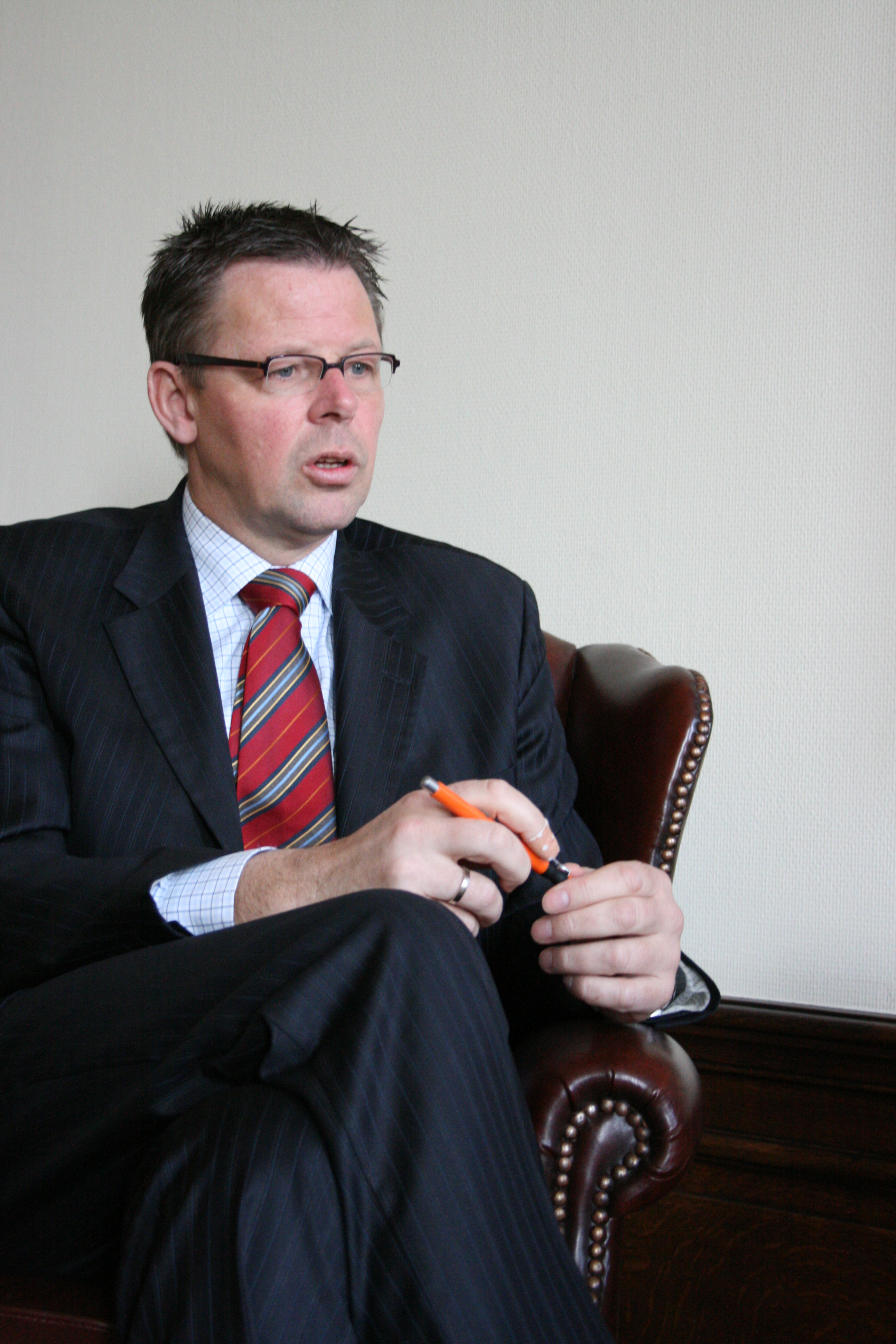 Doekle Terpstra in his office at the HBO-Raad in The Hague.